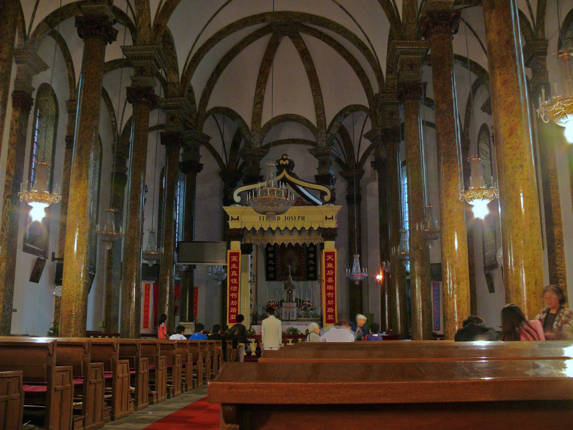 Inside Saint Joseph's church in Beijing (China).